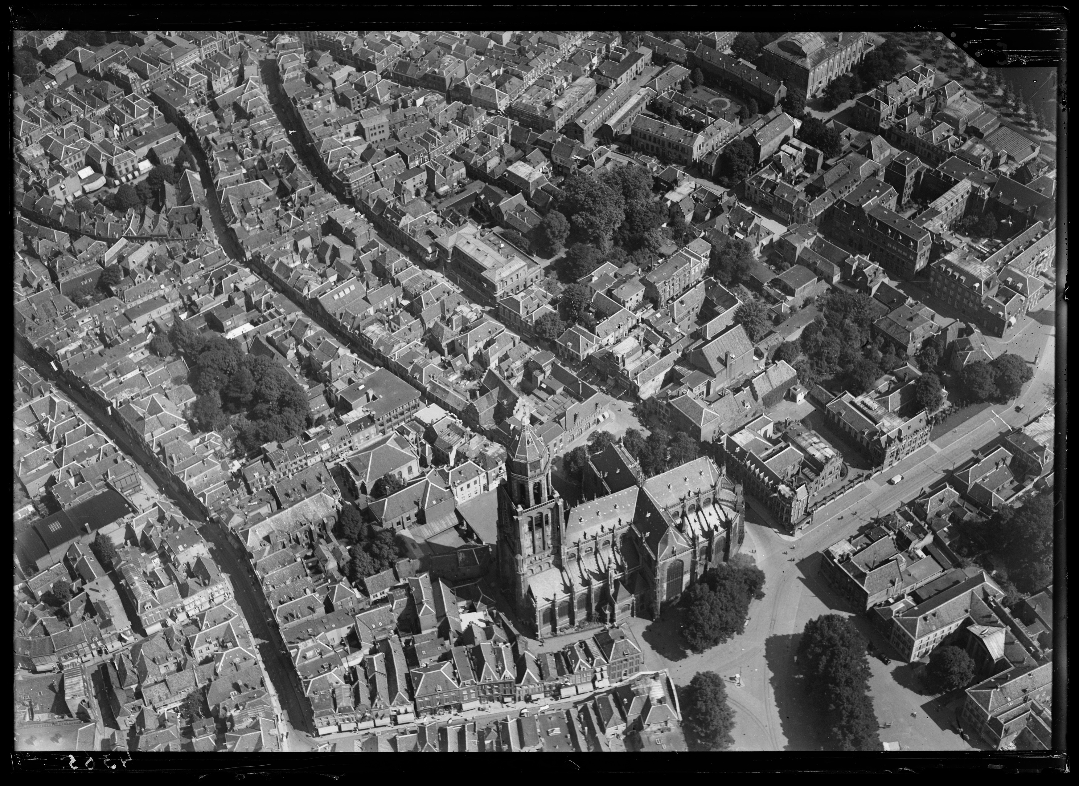 Aerial photograph of Arnhem, The Netherlands. Eusebius Church (Arnhem).